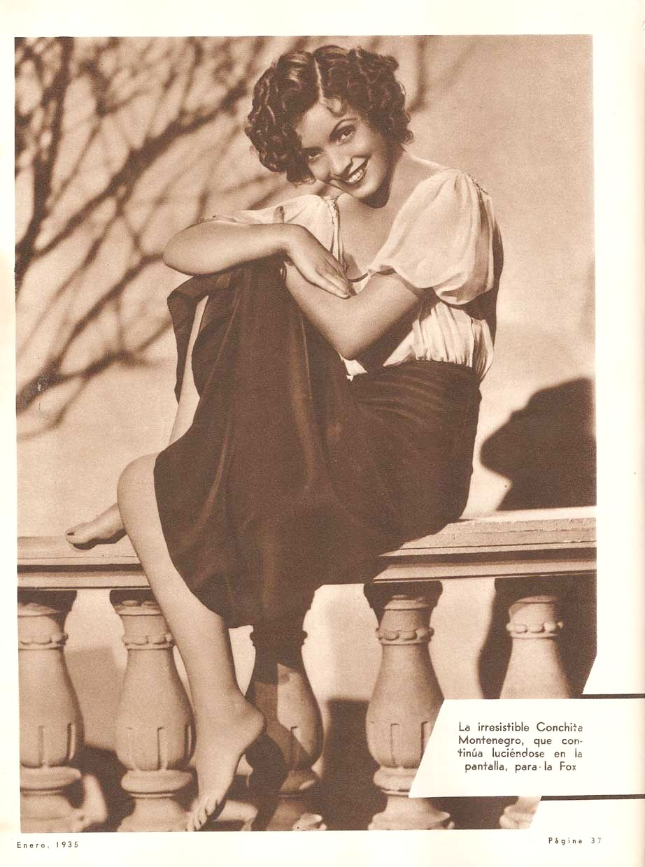 Publicity photo of Conchita Montenegro for Argentinean Magazine. (Printed in USA)